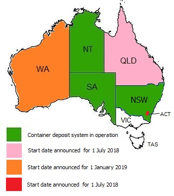 Australian States and Territories with CDS Other information Australian States and Territories with CDS